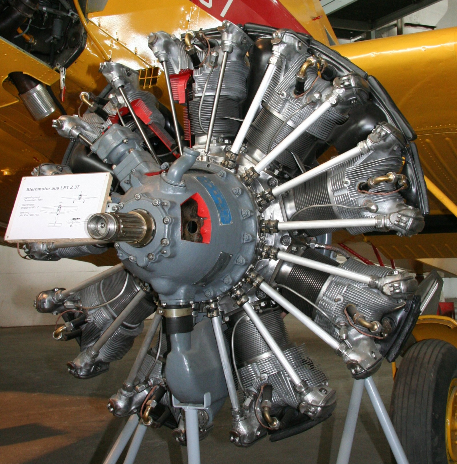 Avia M462RF Z at the Museum für Luftfahrt und Technik Wernigerode, Germany.